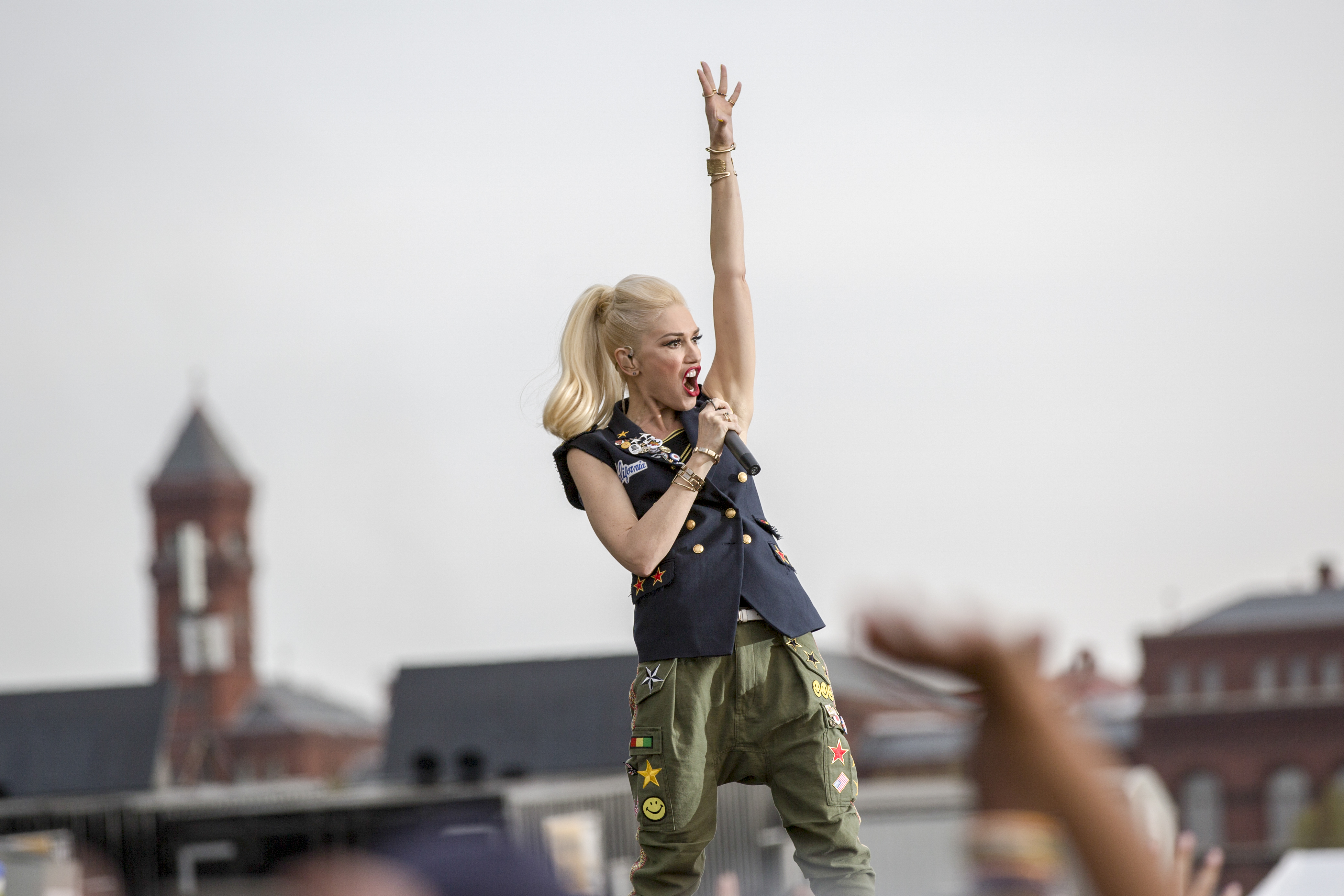 Gwen Stefani performs on the National Mall for Global Citizen Earth Day 2015